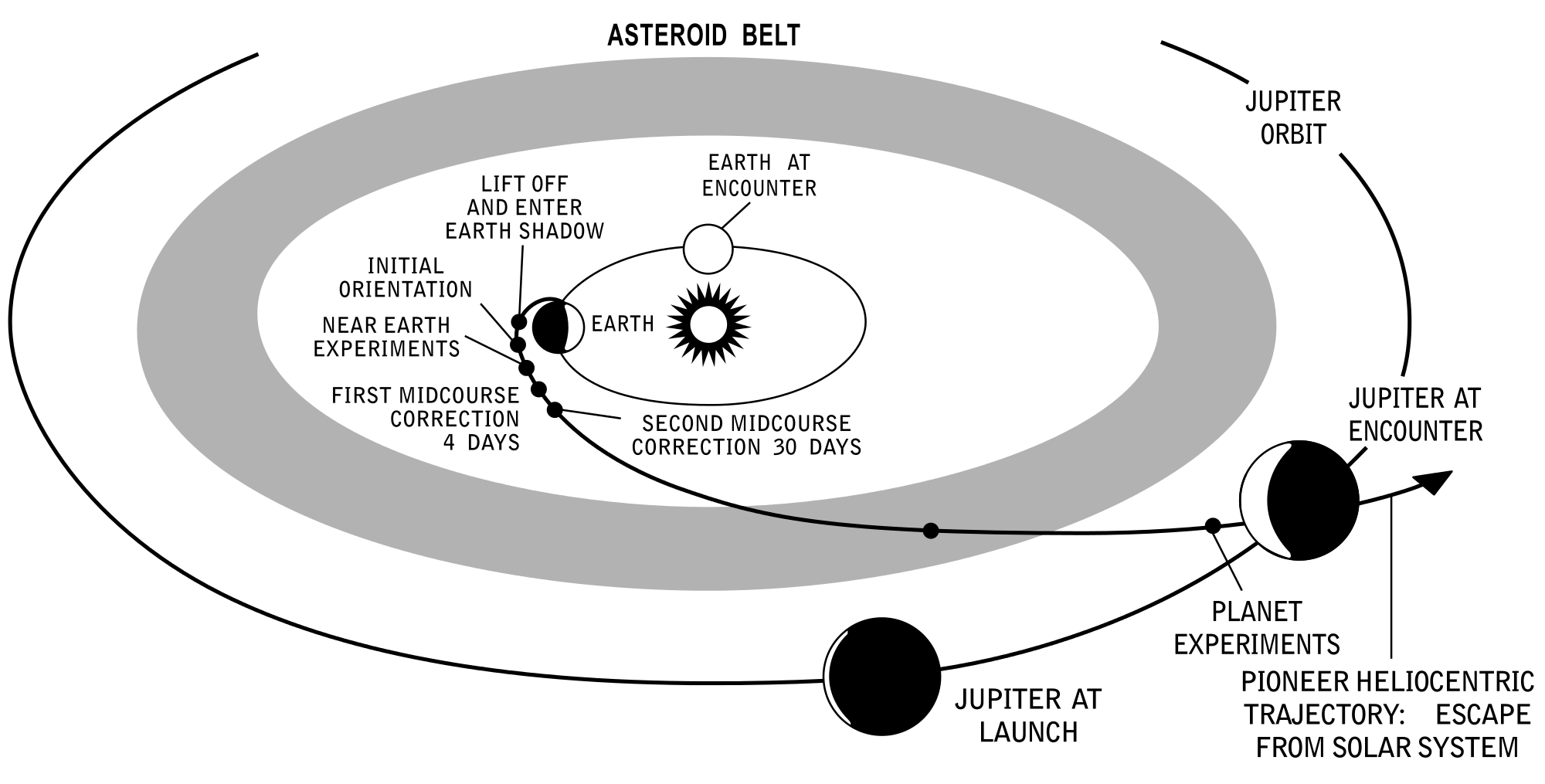 Pioneer 10 interplanetary trajectory.